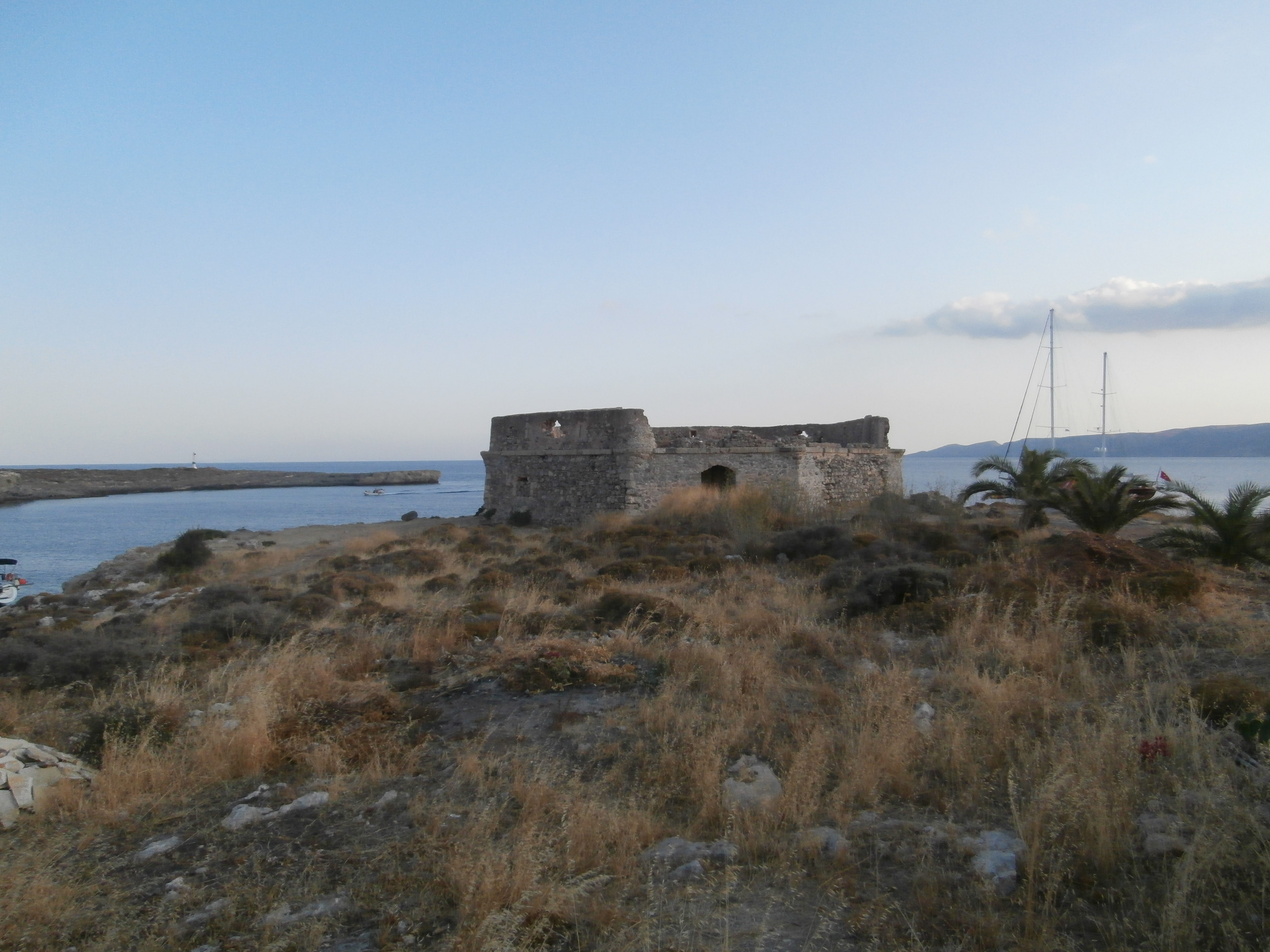 The venetian small fort at Avlemonas